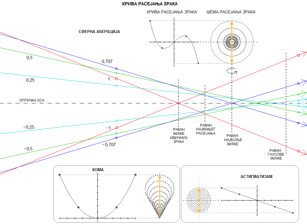 КРИВА ЗРАКА - ПРИМЕРИ